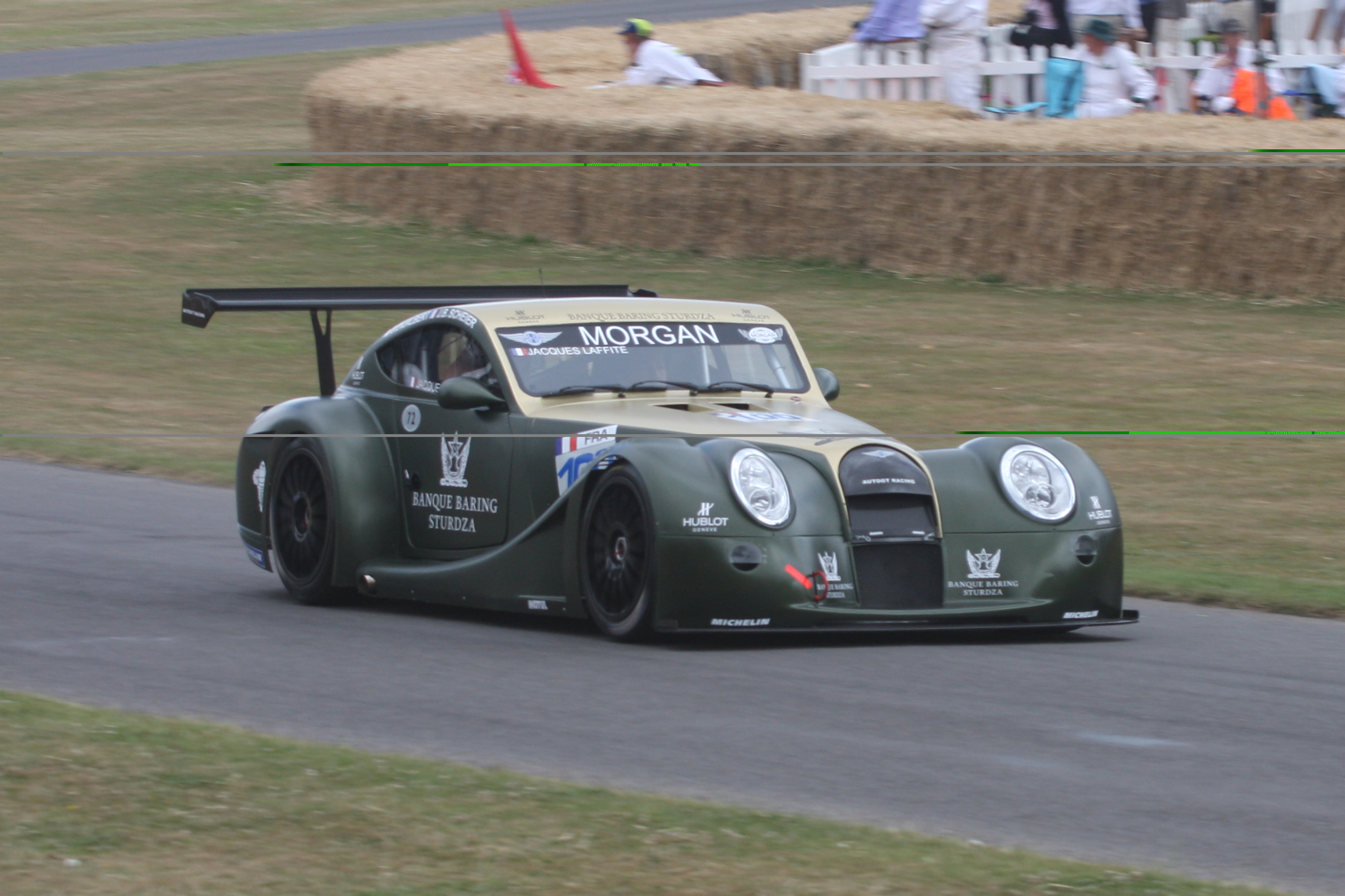 2009 Morgan Aero Supersports GT3